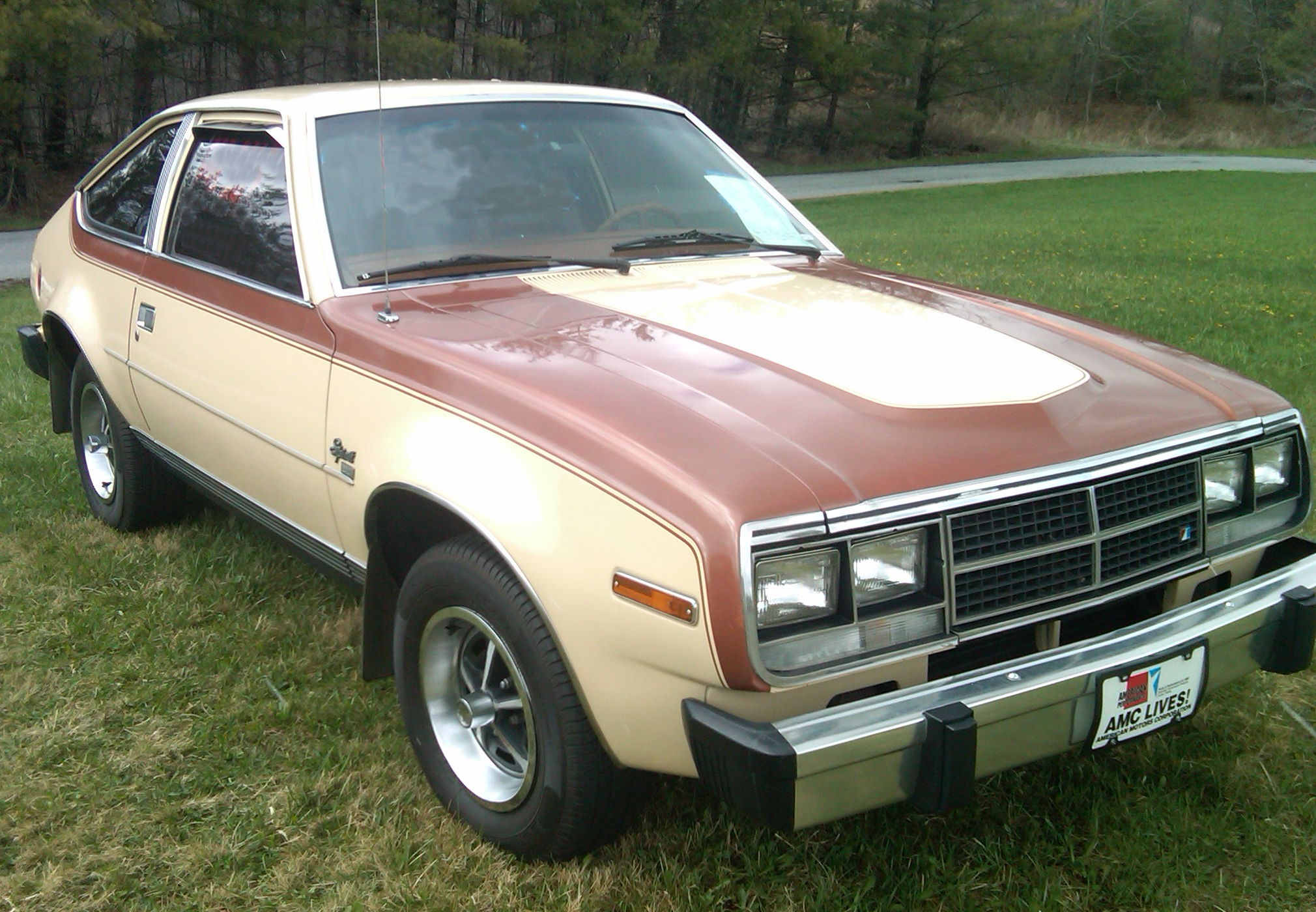 AMC Spirit DL (built by American Motors Corporation - this version from 1982 or 1983) a luxury-type subcompact. This 2-door liftback is finished in two-tone (Jamaican Beige and Coper Brown - paint codes: J2 and 1E) with AMC's styled steel wheels. Photograph taken in North Carolina.